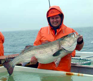 A researcher holds up a large striped bass, Morone saxatilis